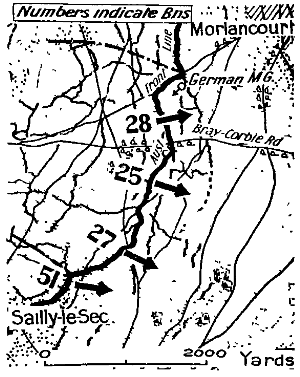 Map detailing the start positions of the Australian battalions prior to the Third Battle of Morlancourt